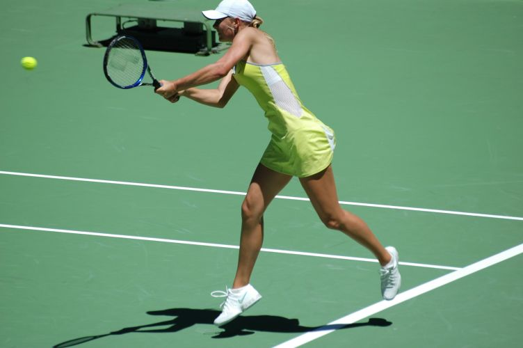 Sharapova returning during the 2005 Australian Open